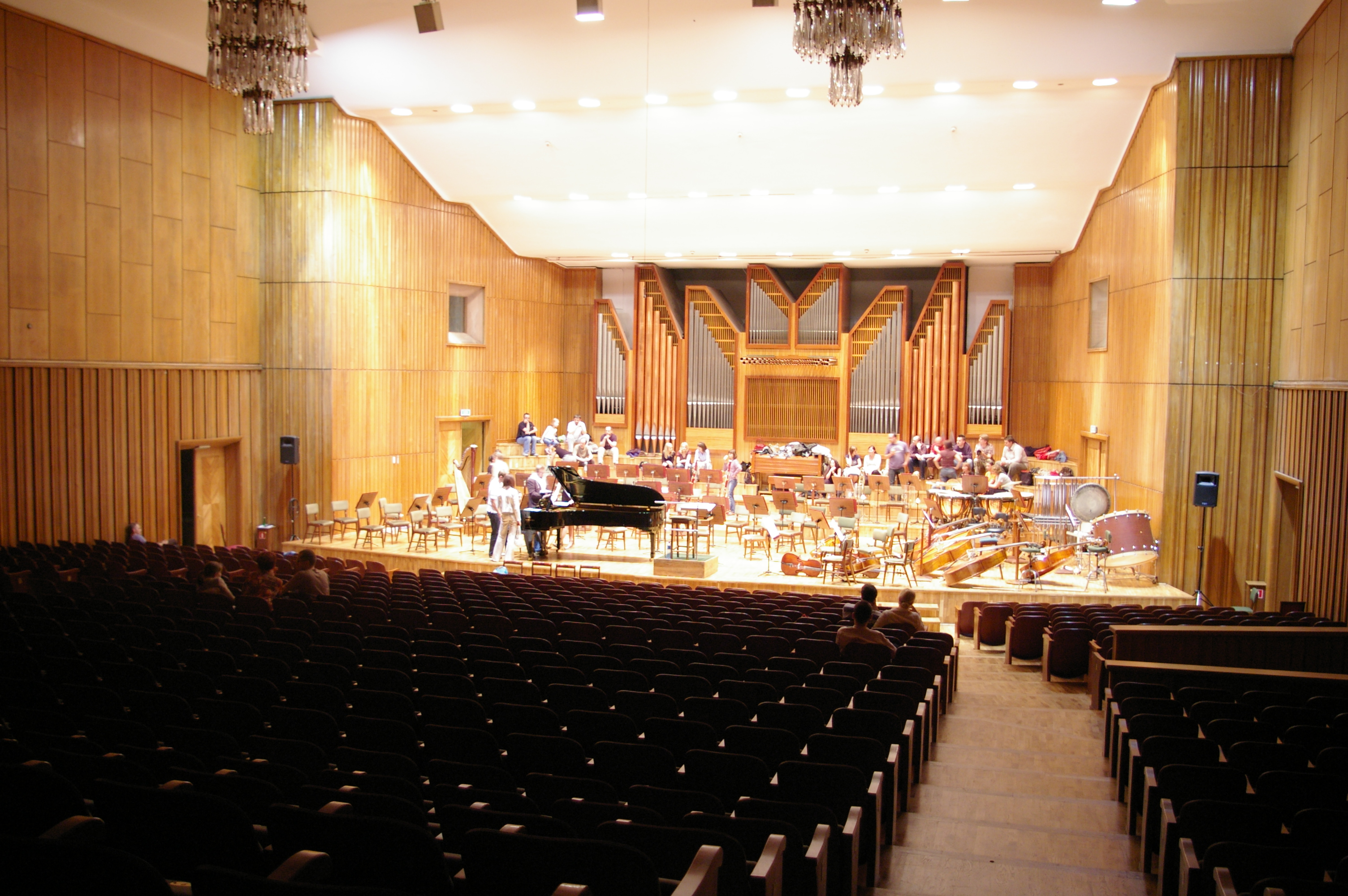 Ignacy Paderewski Pomeranian Philharmonic in Bydgoszcz - stage